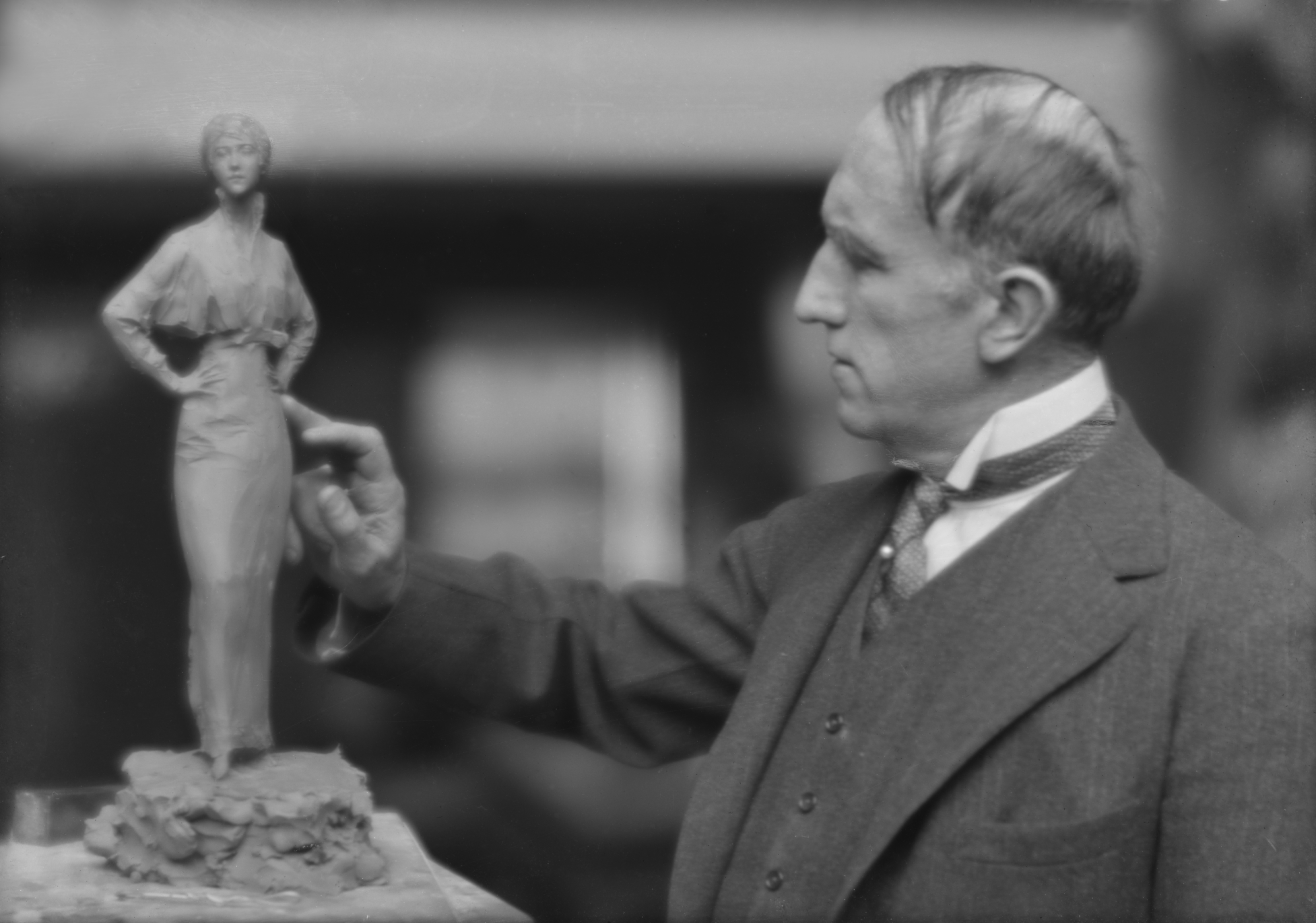 Paul Troubetzkoy, portrait photograph by Arnold Genthe, 1914